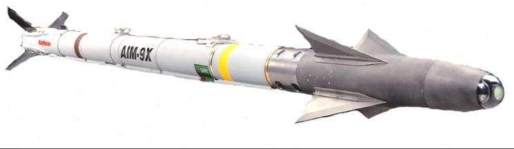 The AIM-9X Sidewinder short-range air-to-air missile